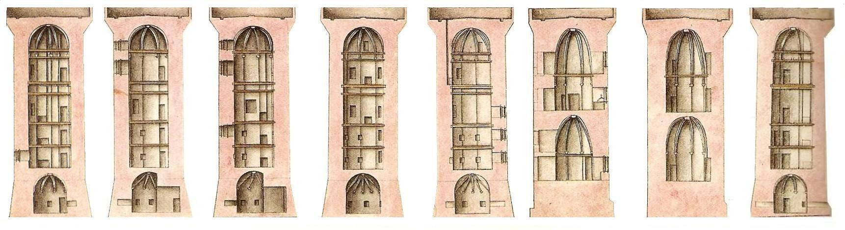 1750 profile of the Bastille towers